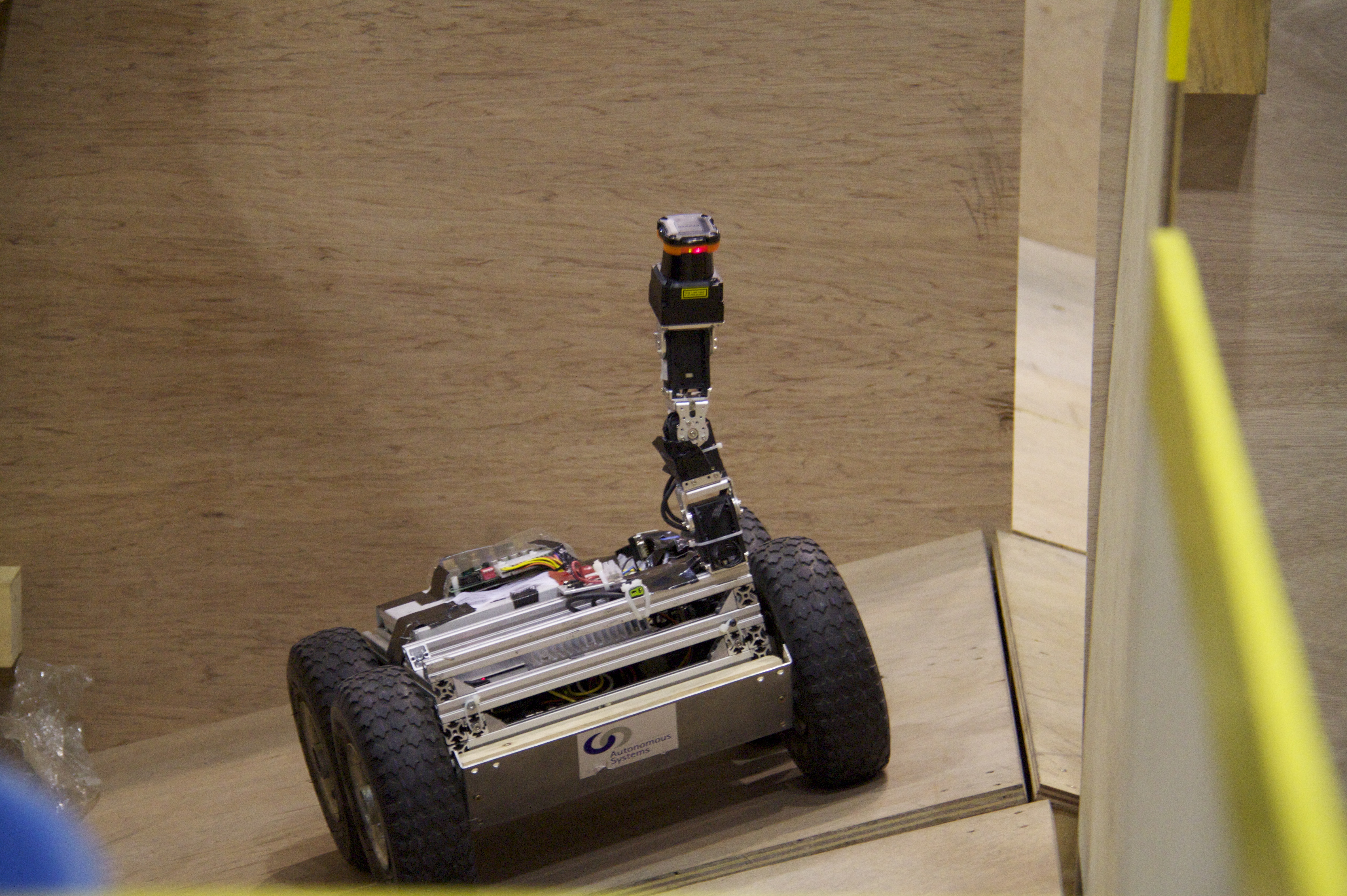 Team CASualty at RoboCup 2010